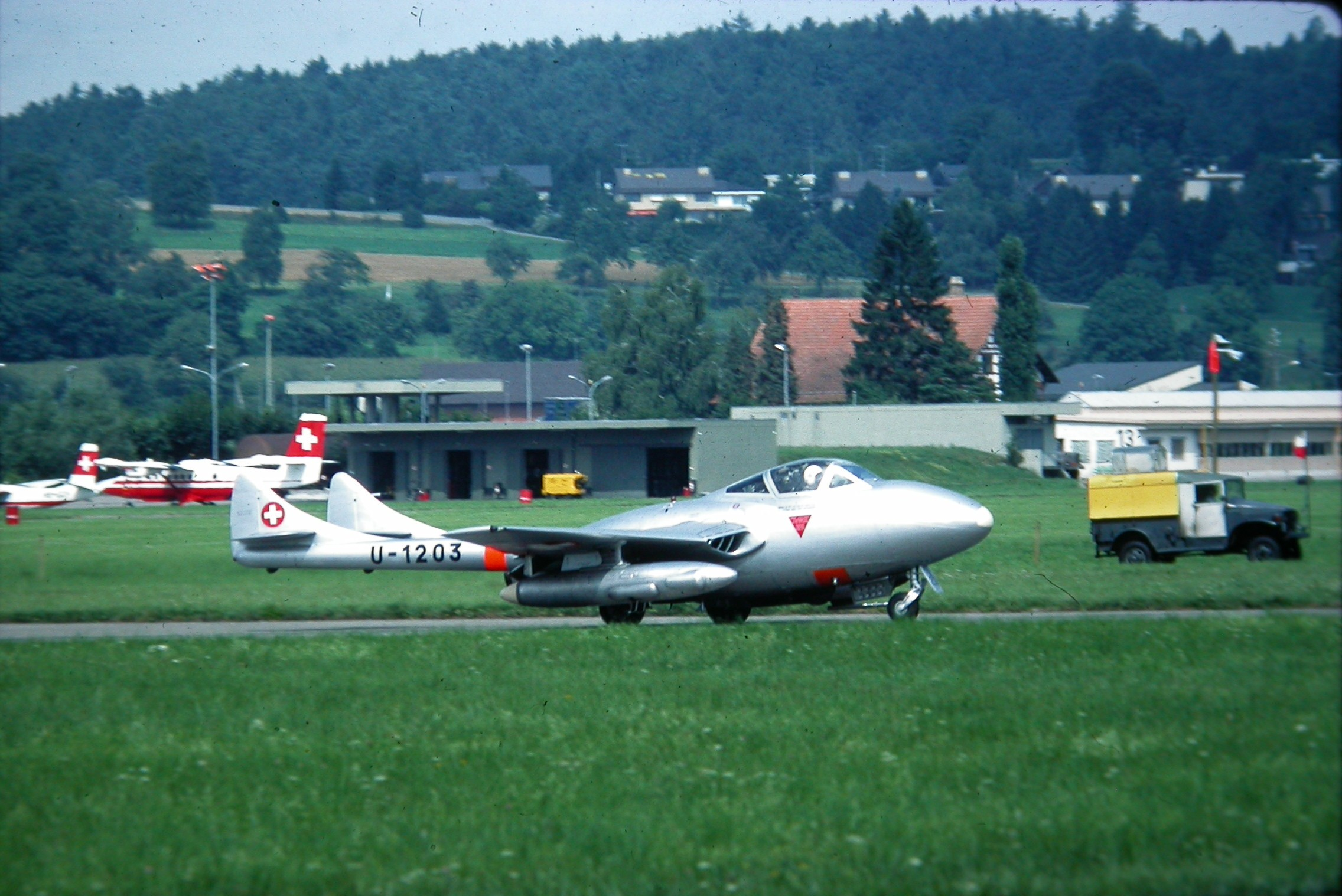 U-1203 after 1974 was not a pilot trainer anymore but an ECM aircraft.